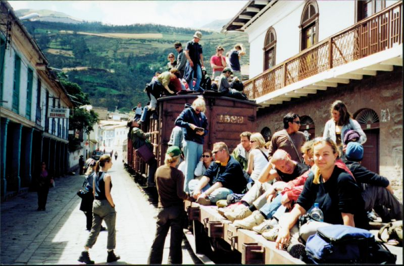 A crowded train with passengers on roofs of boxcars and tops of flatcar near the Devil's Nose mountain in Ecuador.